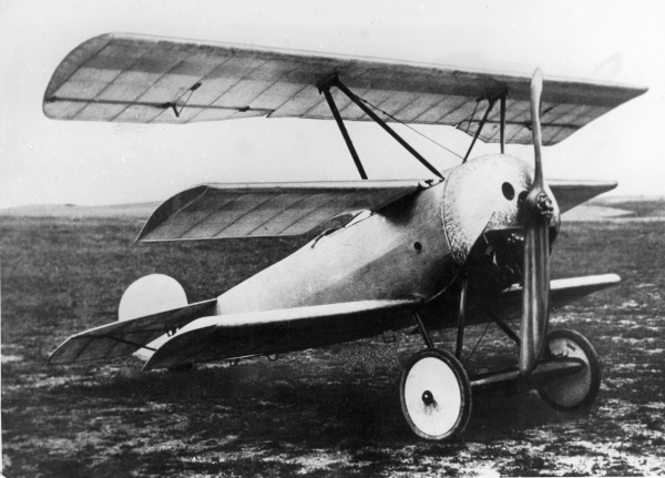 PictionID:43637698 - Catalog:16_004543 - Title:Fokker V.4 1017 (showing the original cantilever wings, which were prone to flexure / flutter. Nowarra photo - Filename:16_004543.TIF - - - - - - - Image from the Ray Wagner Collection. Ray Wagner was Archivist at the San Diego Air and Space Museum for several years and is an author of several books on aviation --- ---Please Tag these images so that the information can be permanently stored with the digital file.---Repository: San Diego Air and Space Museum